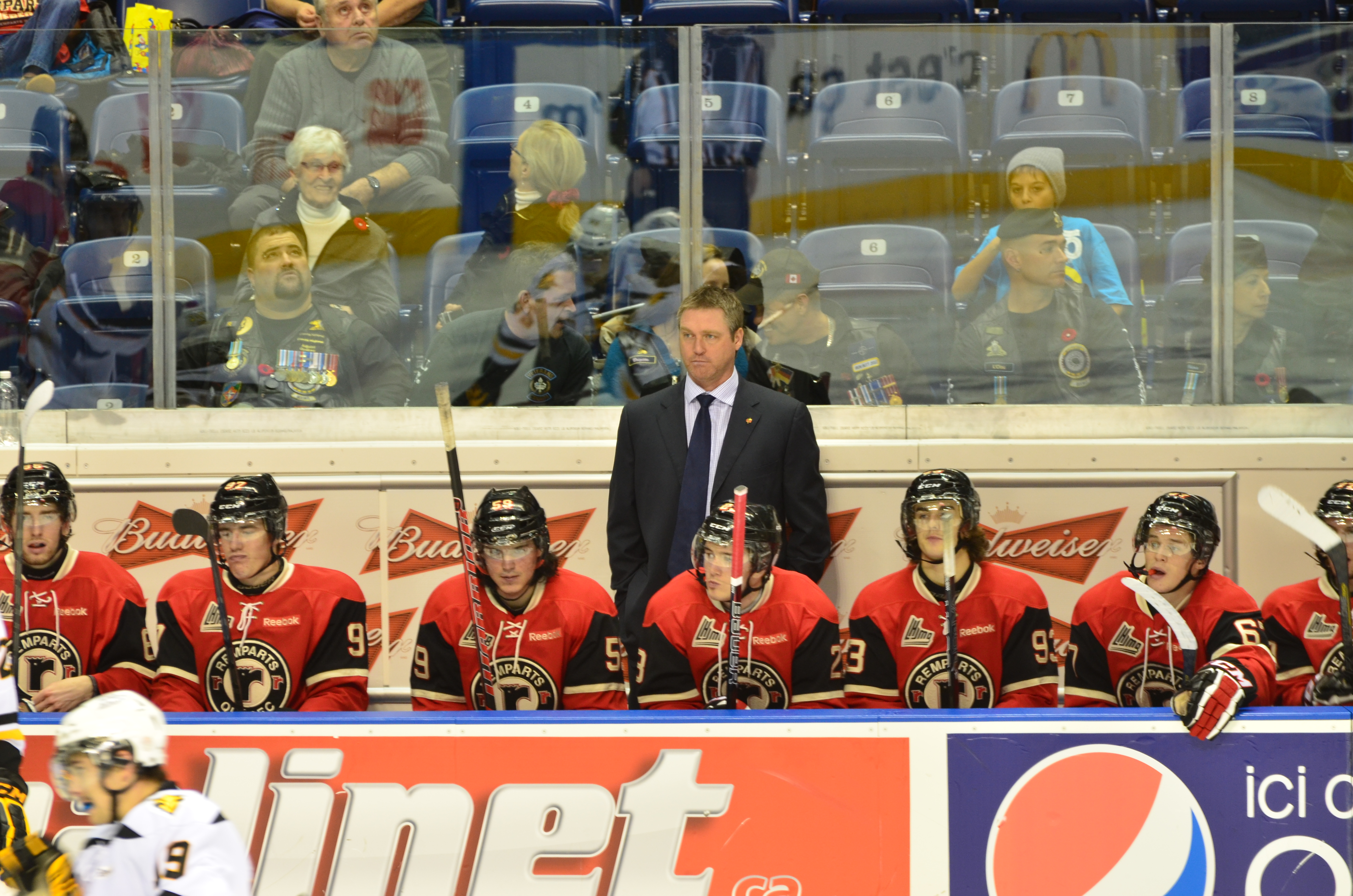 At a hockey game of the QJMHL between the Quebec Remparts and the Cape Breton Screaming Eagles.